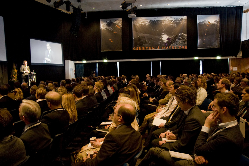 A picture of the student-run conference NHH-Symposiet 2009